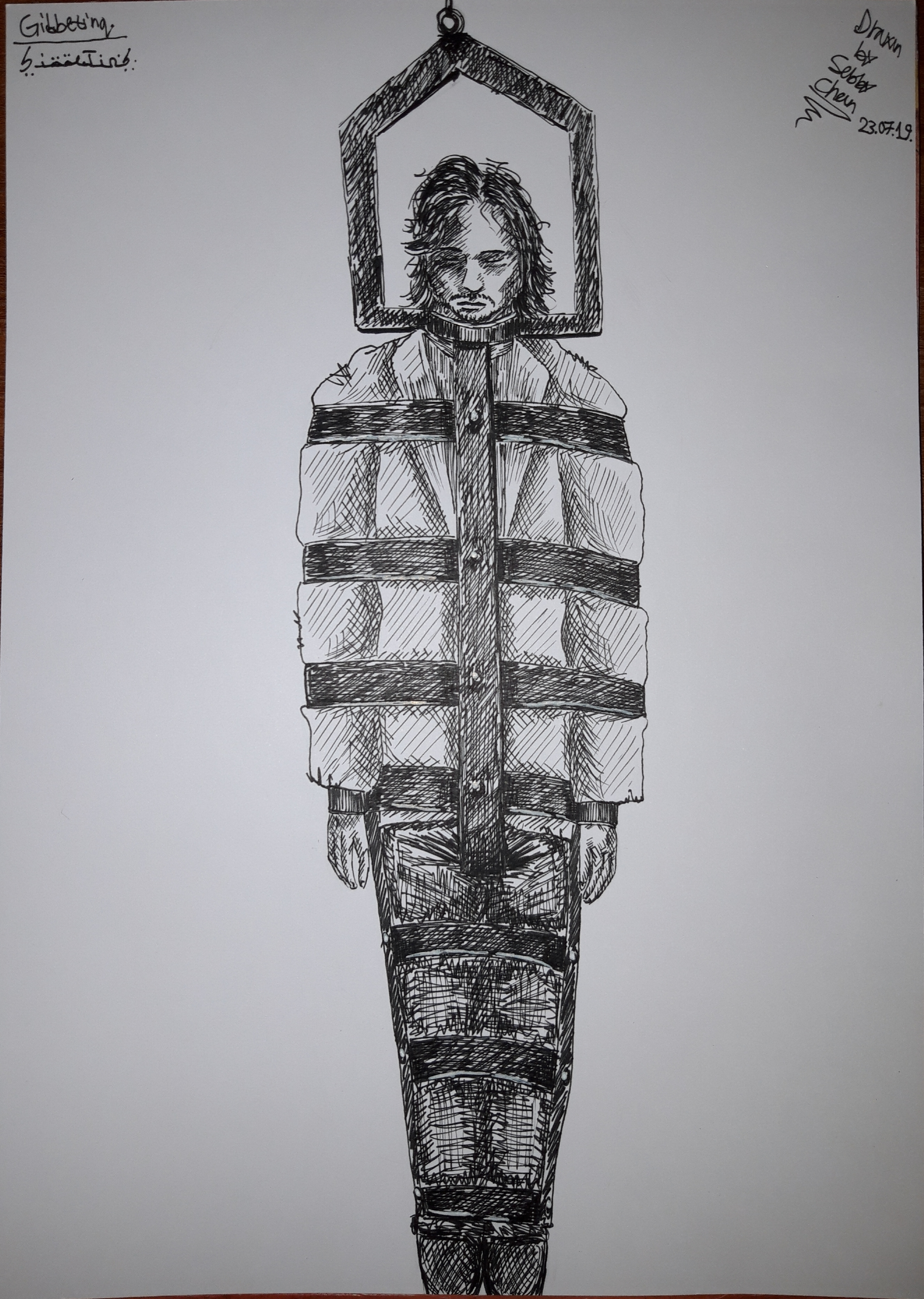 An illustration of a man inside a gibbeting.